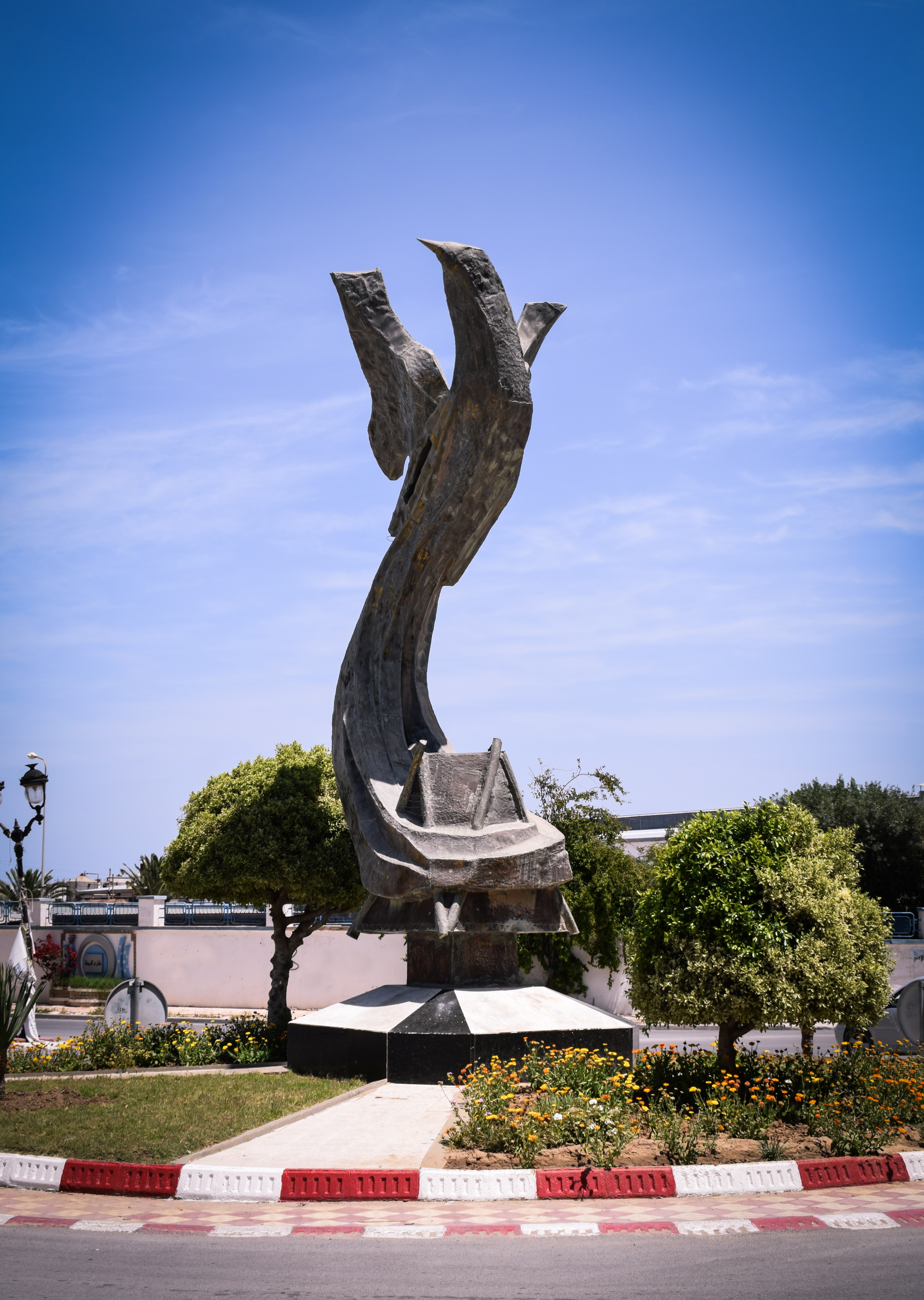 The Textile industry monument in Ksar hellal by the sculptor Abdelfattah Boussetta.